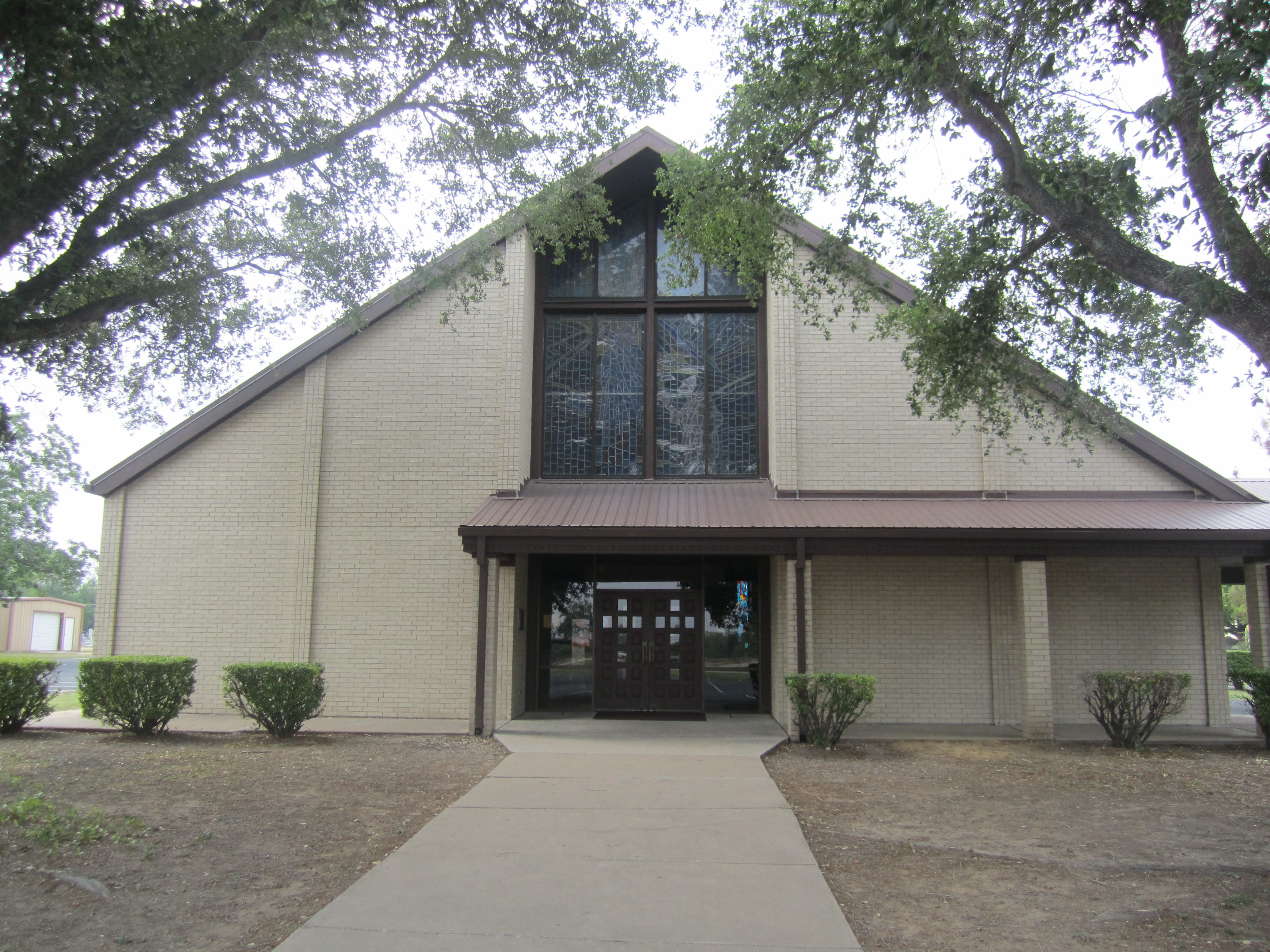 I took photo with Canon camera in Thorndale, TX.